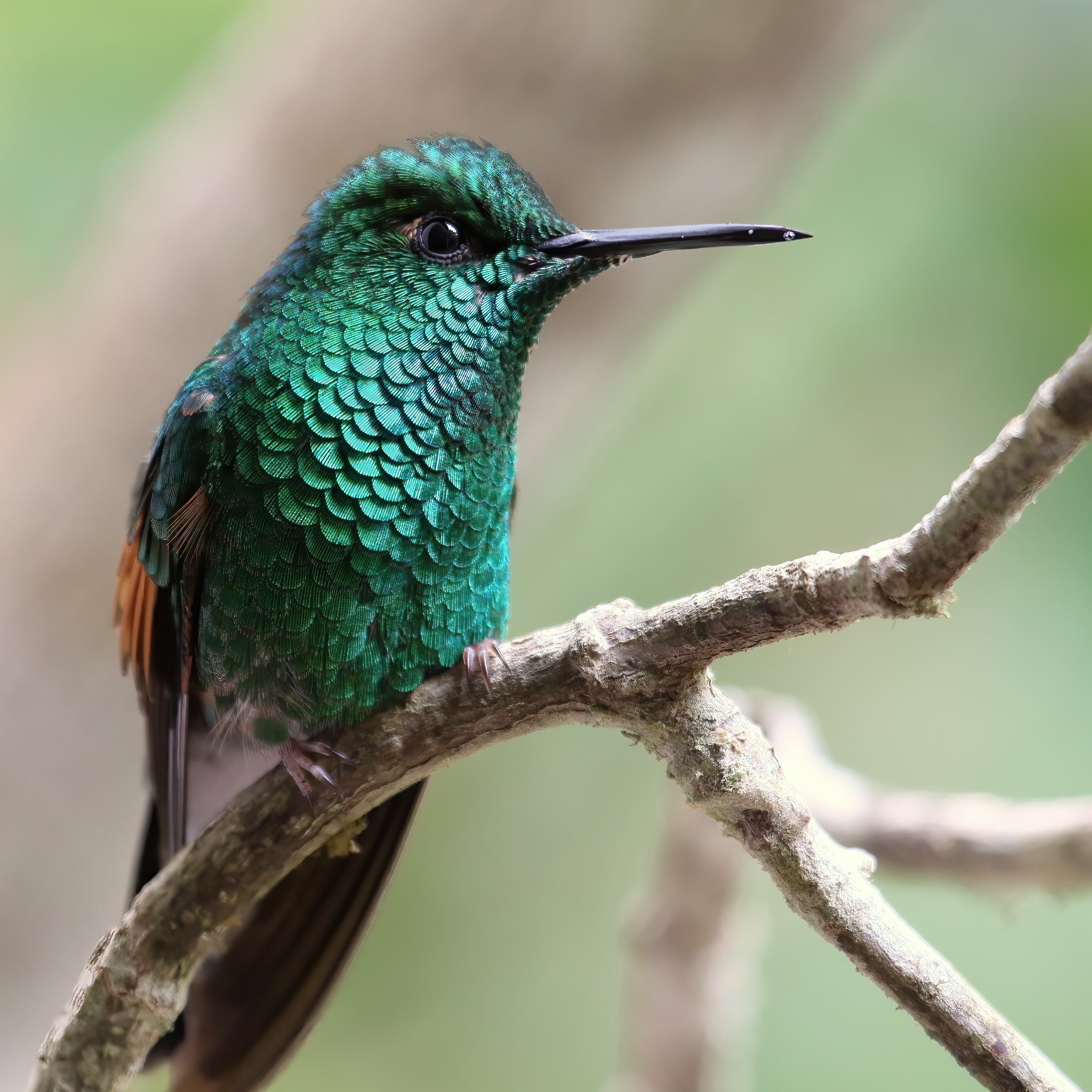 Stripe-tailed hummingbird, Monteverde Cloud Forest Reserve, Costa Rica